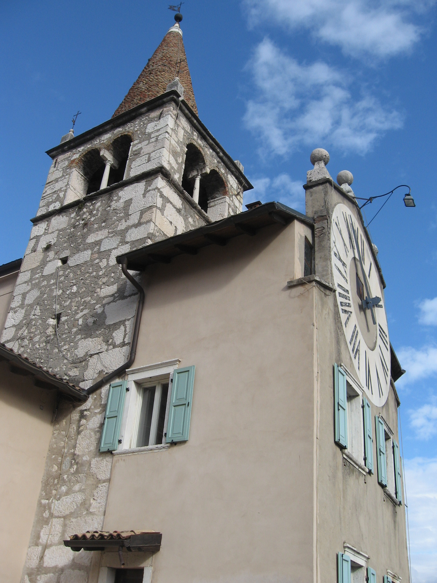 Building of the 16th century; campanile and orologio in Montalbano di Mori; Trentino Alto Adige, Italy.